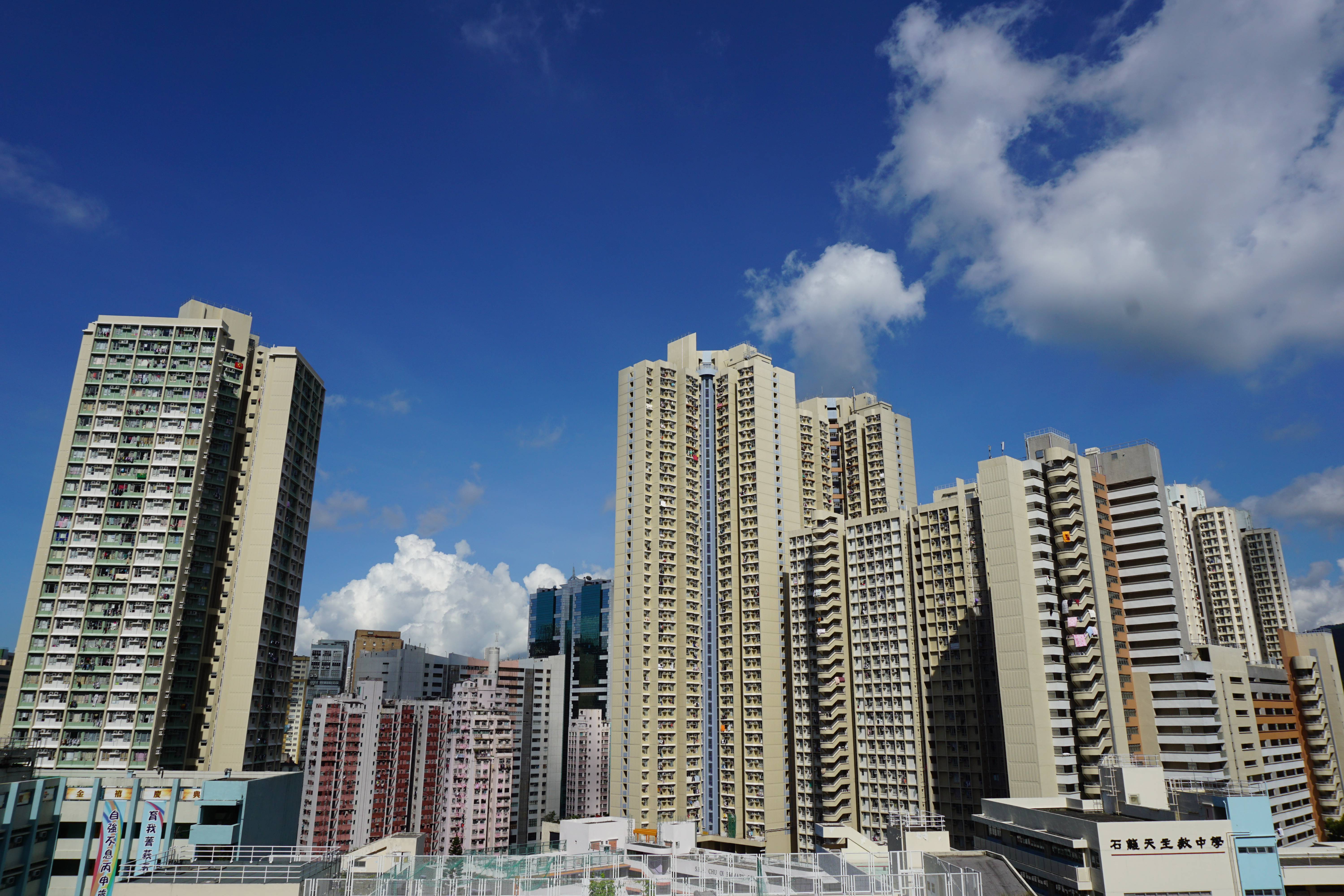 Shek Yam Estate in Kwai Chung, Hong Kong.